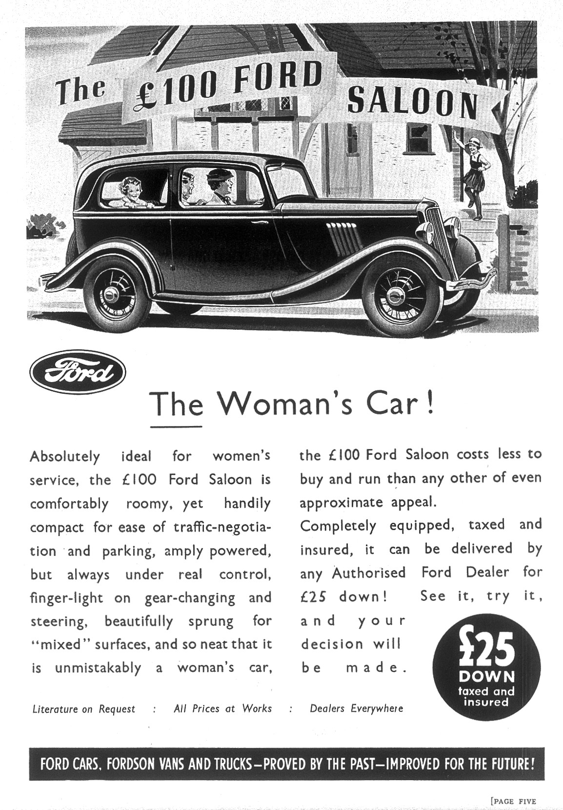 Advertisement for Ford, 'The Woman's Car'. Archives & Manuscripts Keywords: cmac; cmac sa/nbtf: g22/2; cmac: sa/nbtf g22/2